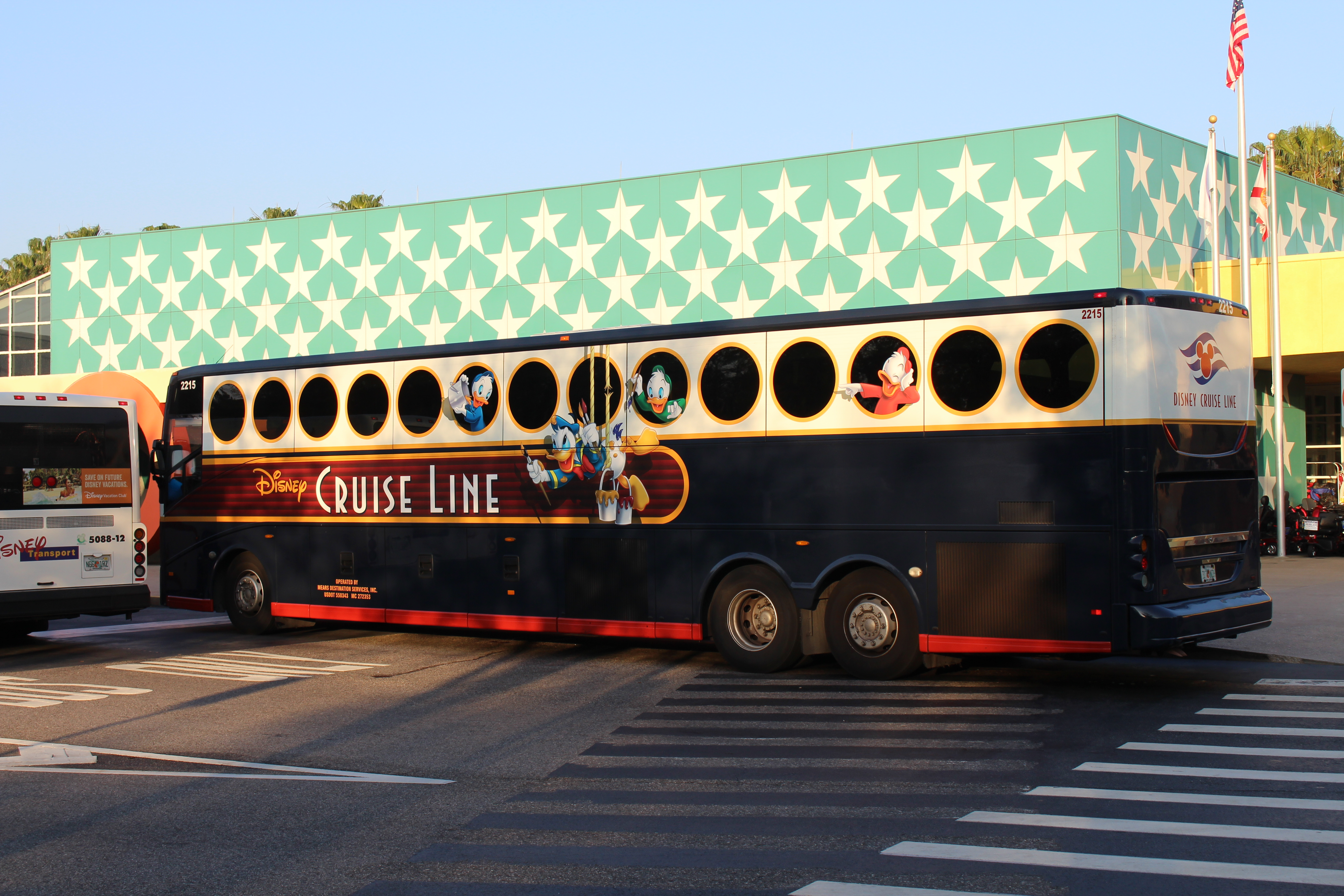 Disney's All-Star Movies Resort